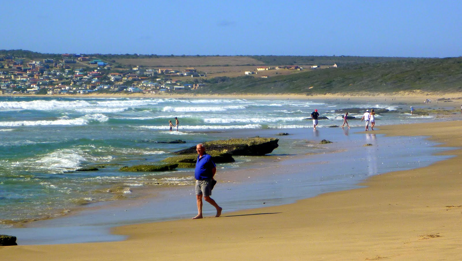 Boggomsbaai beach with Vleesbaai in the background